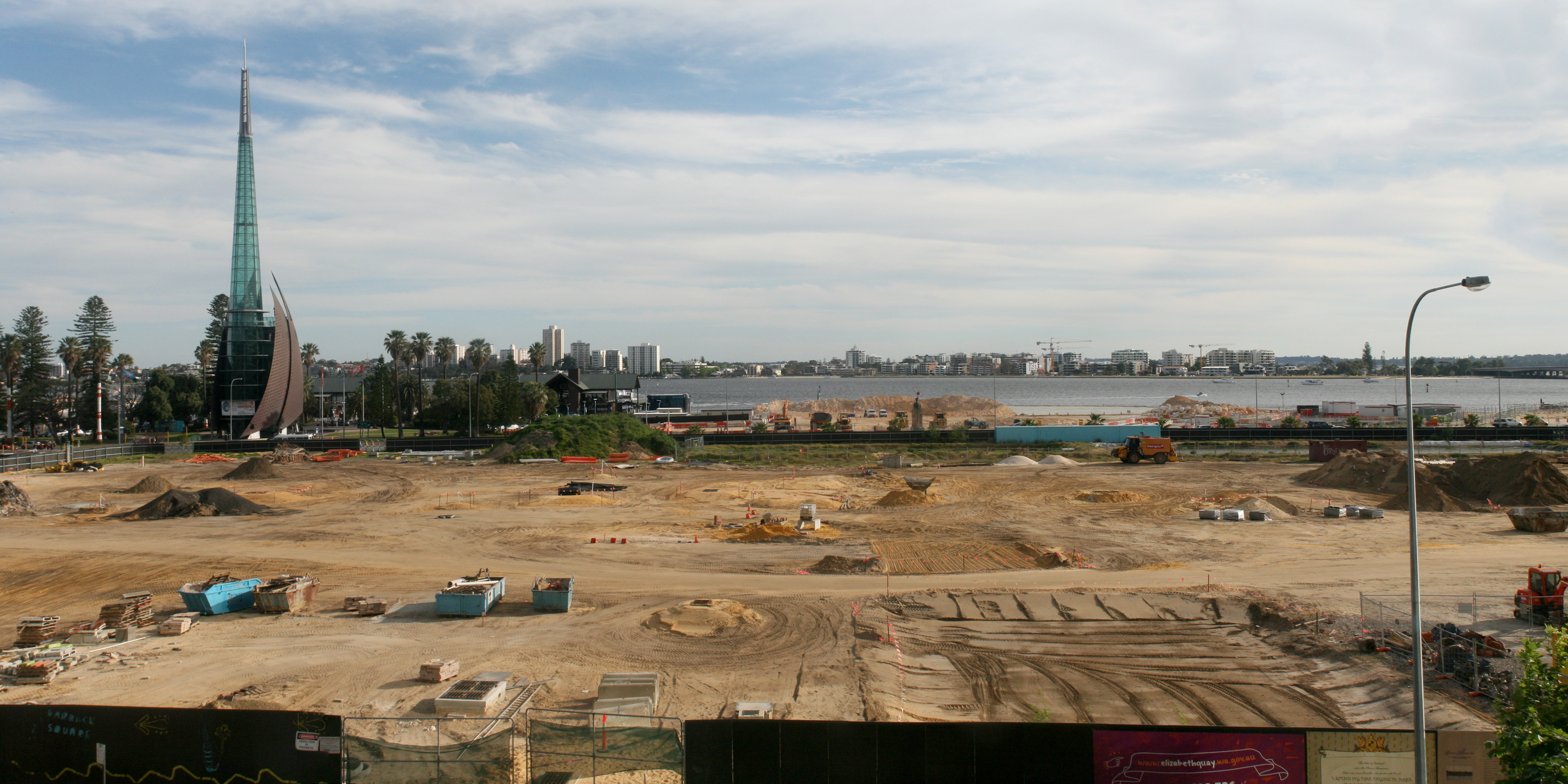 Panorama of Elizabeth Quay development in November 2013. Photographed from Geyer office.